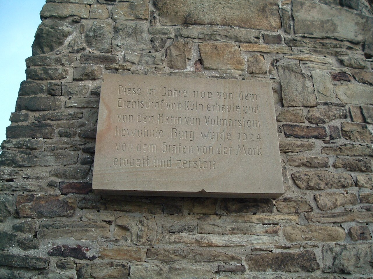 The castle "Burg Volmarstein" is a ruin in Wetter (Ruhr)-Volmarstein near Hagen, Germany. It was built in 1100 by archbishop Friedrich I. von Schwarzenburg. This image a sign at one of the tower ruins with the inscription (translated): "The castle, which was built in 1100 by the Archbishop of Cologne and inhabited by the Lords of Volmarstein, was conquered and destroyed in 1324 by the Count of Mark."